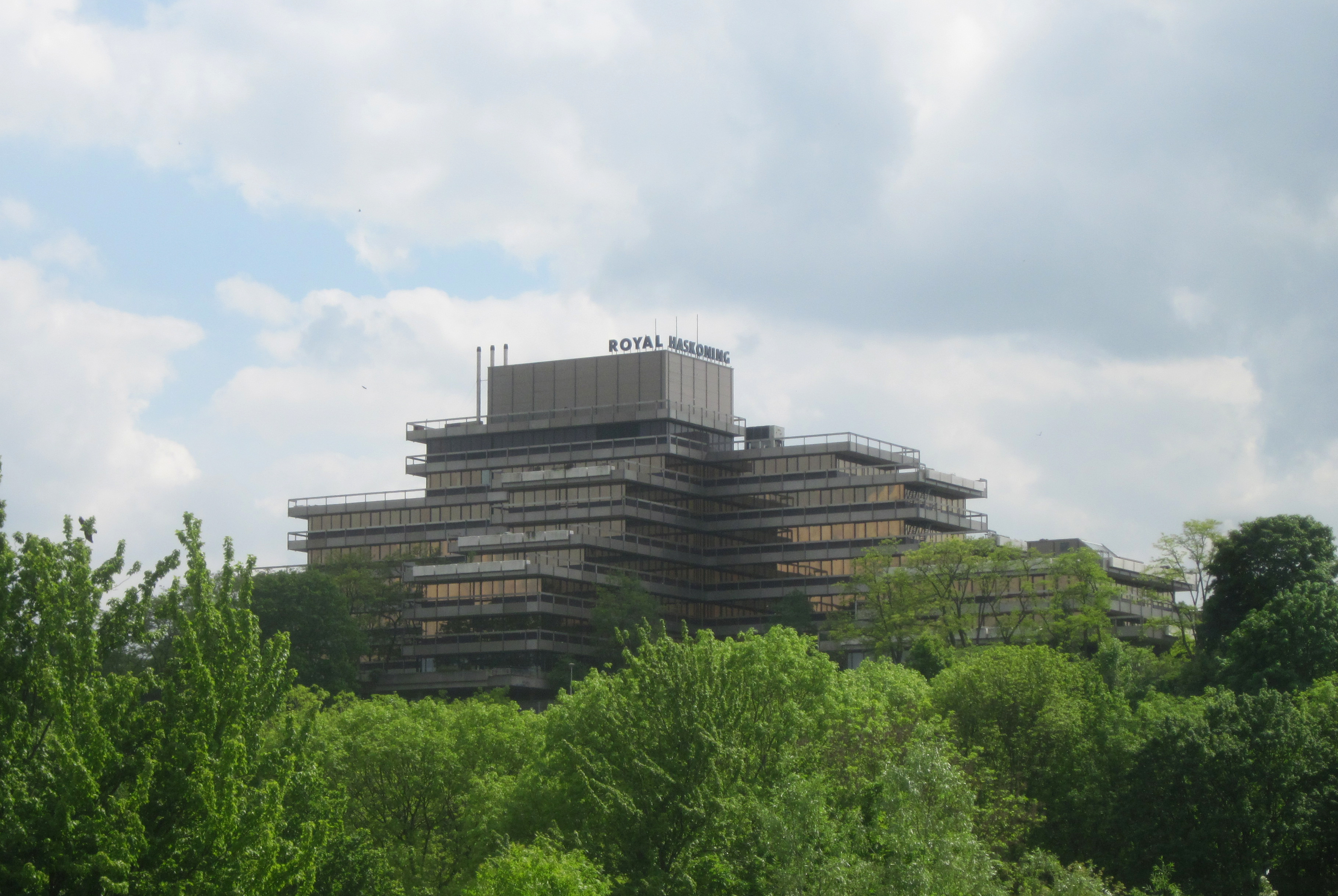 Officebuilding of Royal Haskoning at the Barbarossastraat in Nijmegen, picture taken from the Ooysedijk. The building was a design by DSBV ingenieurs en architecten (A. Bodon and J.H. Ploeger) in 1974/1976 and was originally build for the Estel company. [1]